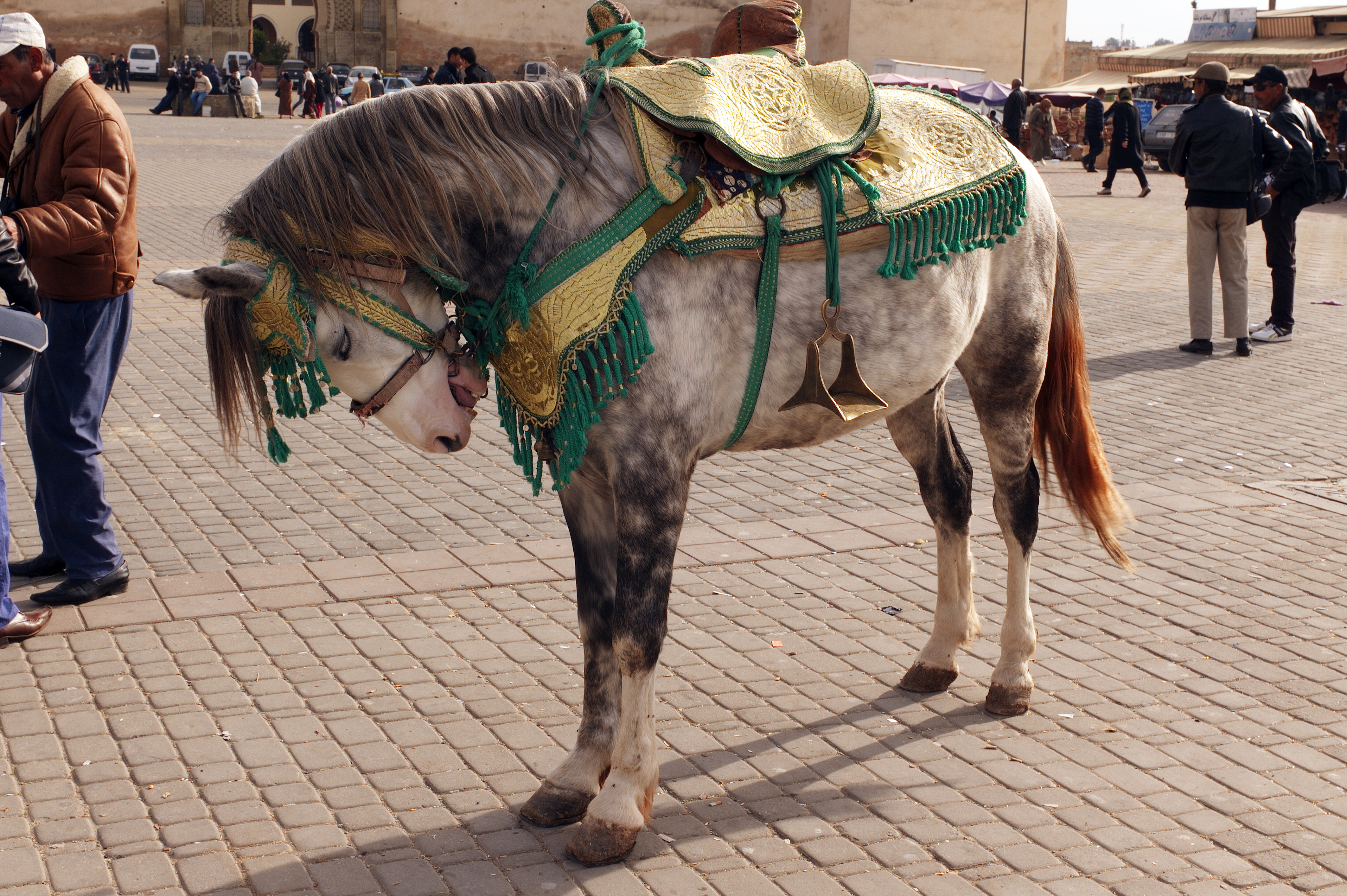 Agro-pole Oliviers de Meknès, Maroc